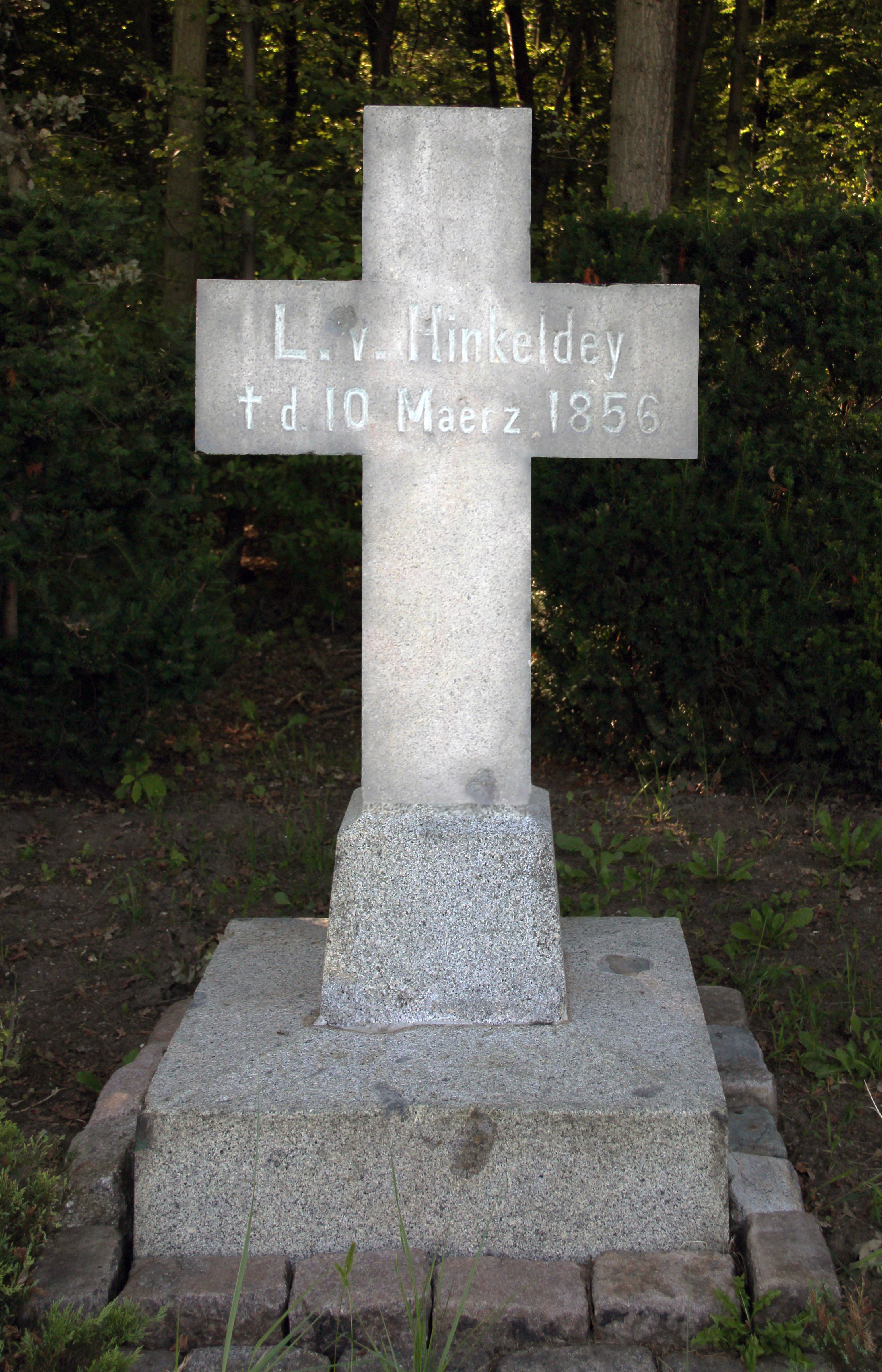 Memorial stone, Karl Ludwig Friedrich von Hinckeldey, Volkspark Junfernheide, Berlin-Charlottenburg-Nord, Germany